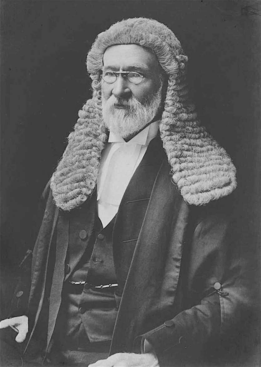 Sir Samuel Griffith (1845?1920), 1st Chief Justice of Australia (1903?1919)